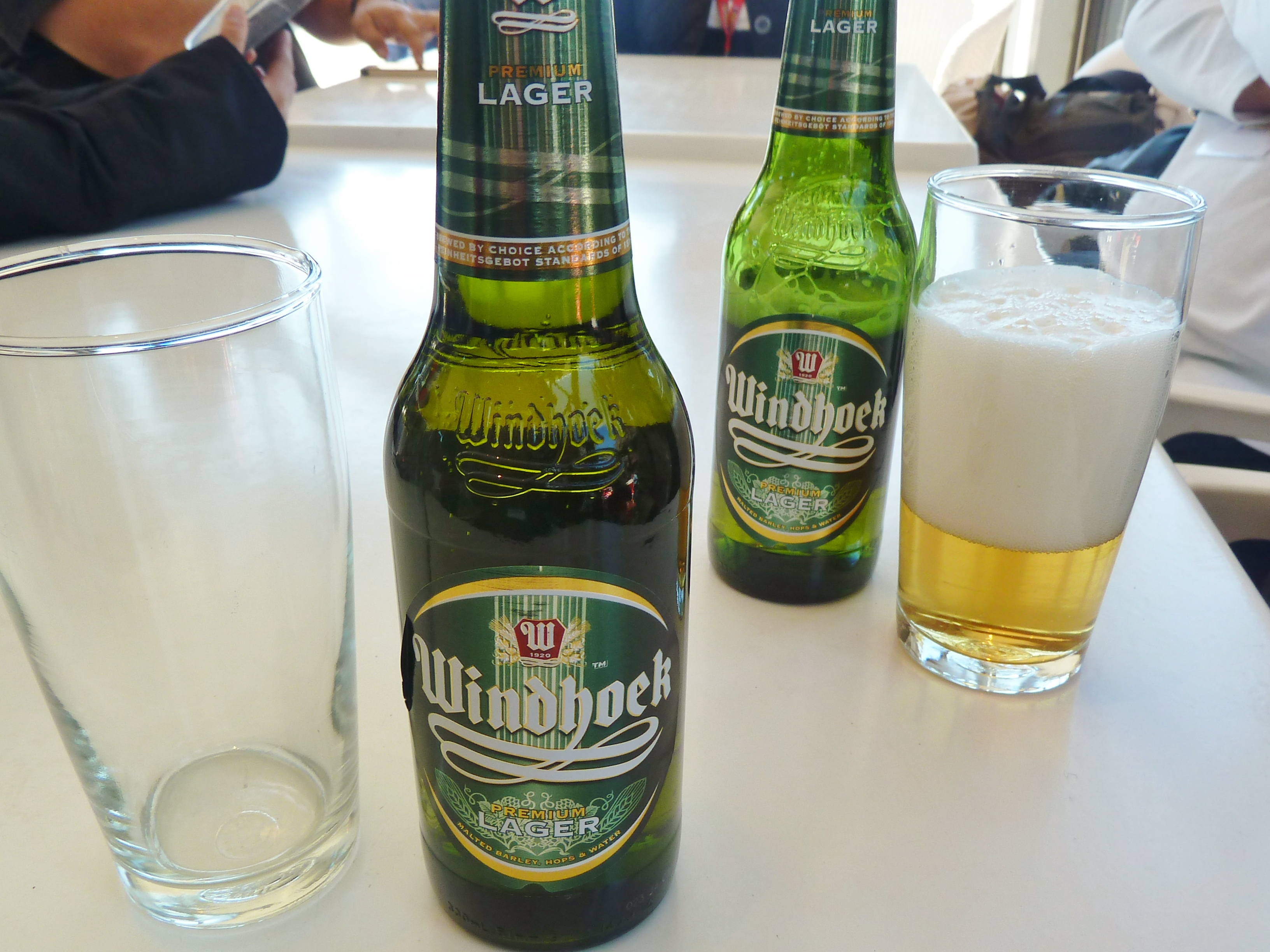 Bottles of Windhoek Lager. Picture taken in Capetown, SA